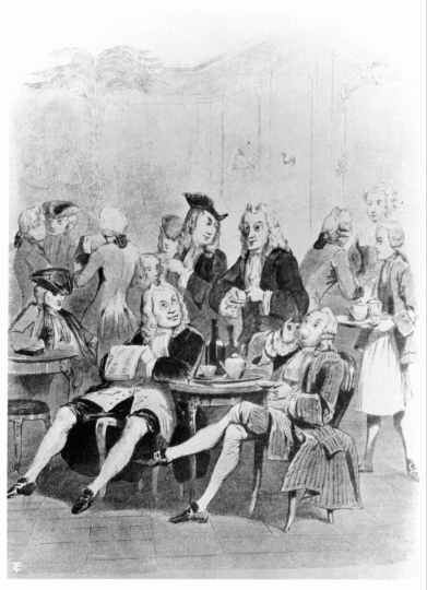 Café de Procope in Paris in 1743.